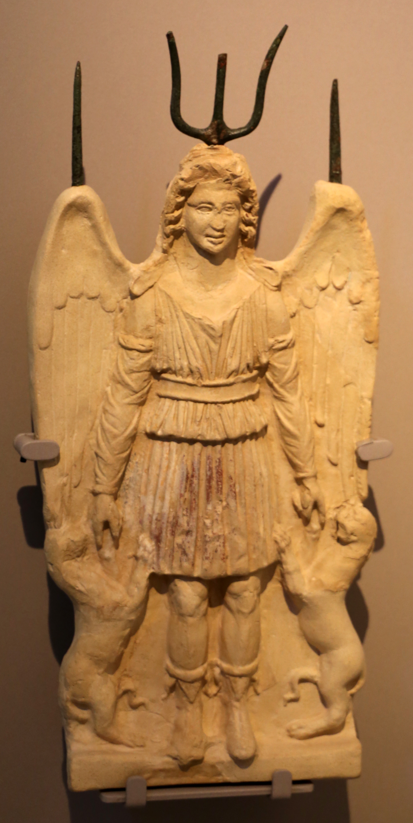 Collections of the Museo archeologico nazionale d'Abruzzo